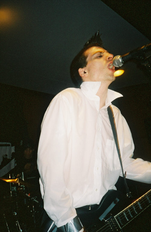 Anti-Flag lead singer Justin Sane